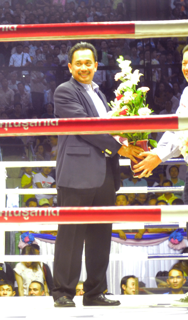 Sommhay Sakulmedta